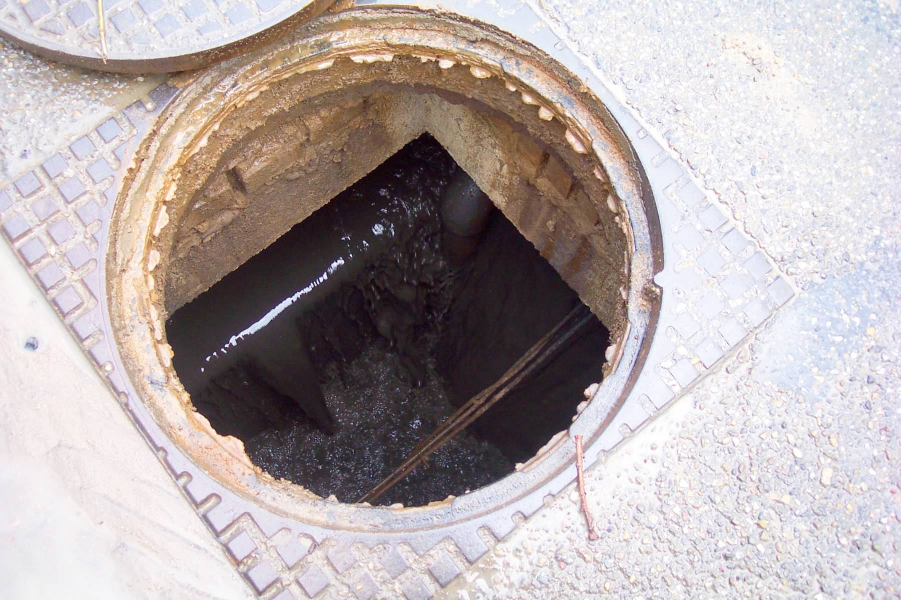 Sewerage overflow